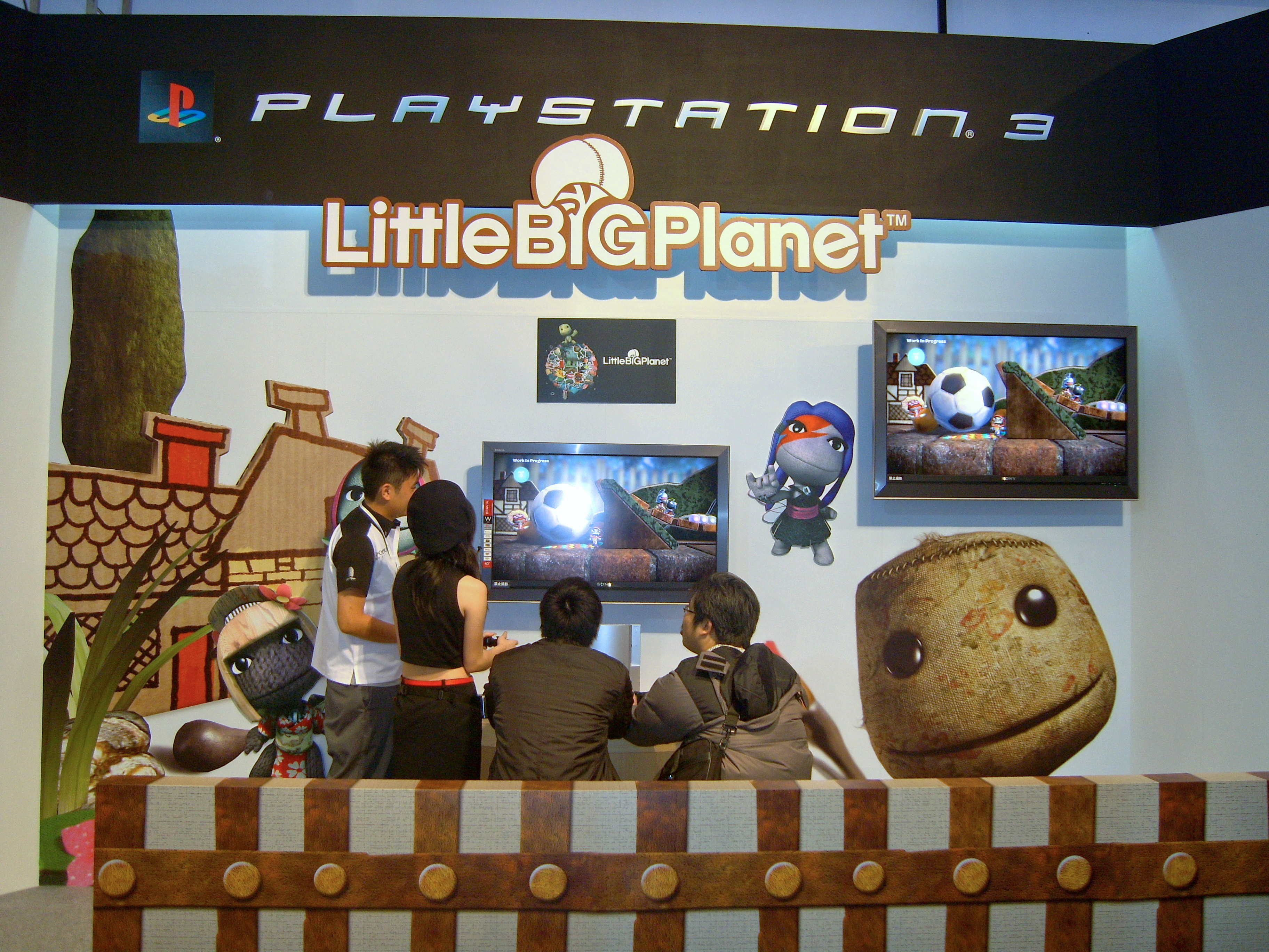 Sony Fair 2008: PS3 LittleBIGPlanet showcase area.